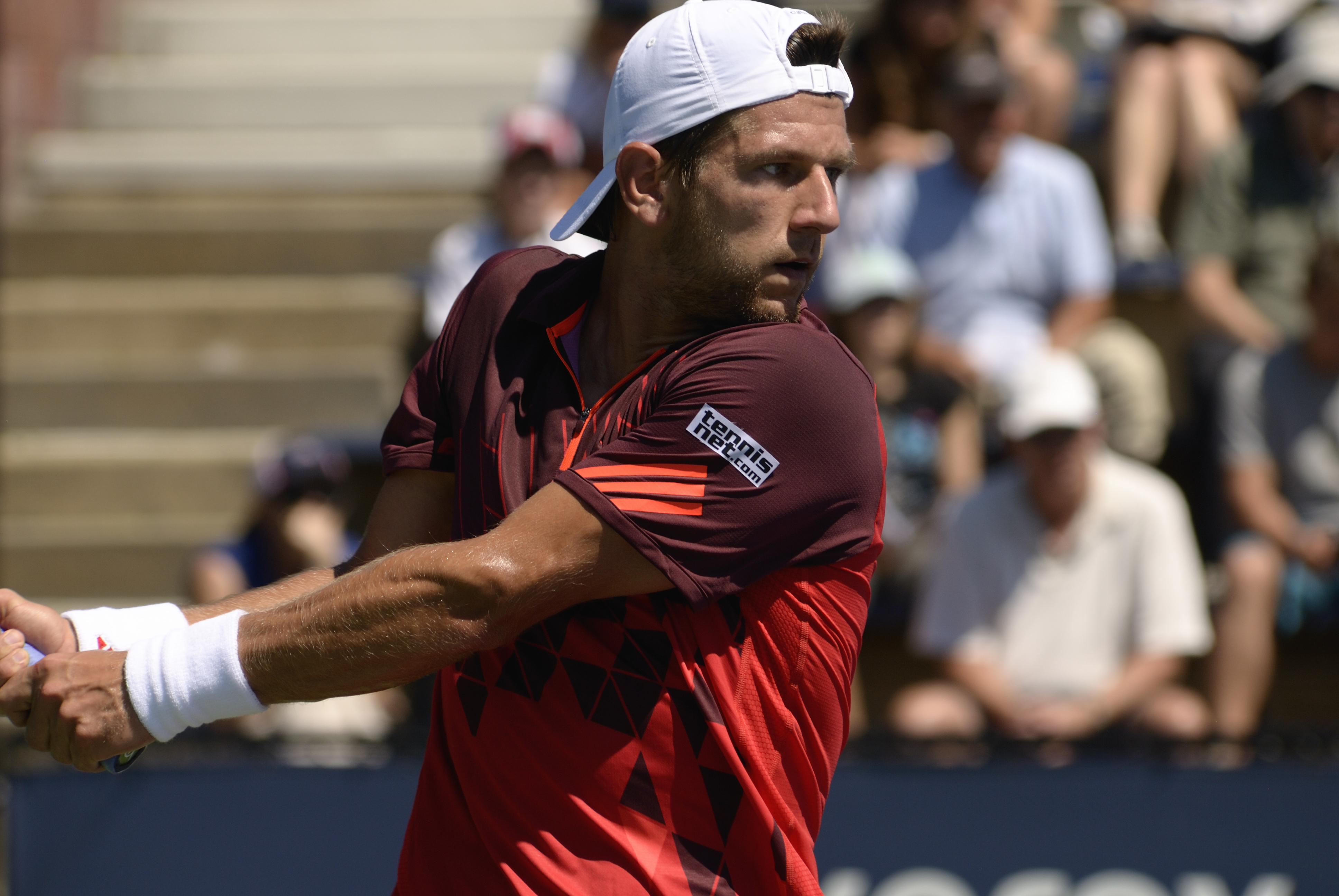 ready